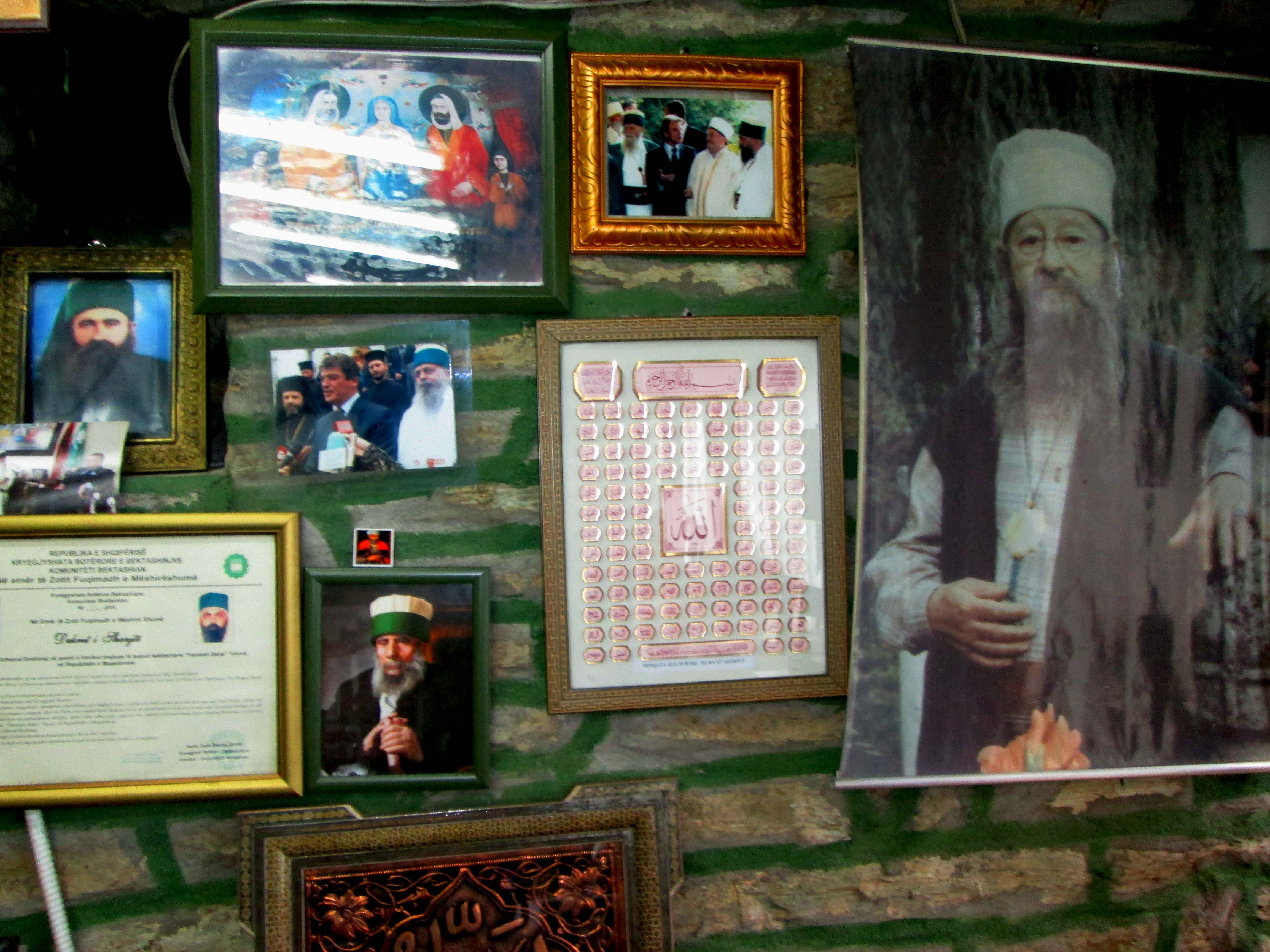 The room in Arabati Baba Teke where visitors are received with all the features of the Bektashi and photos from various meetings with prominent figures from different areas of life